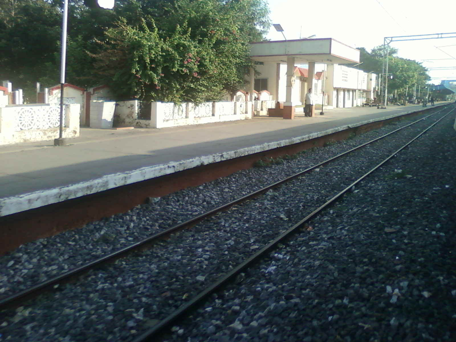 Nidadavole train station in West Godavari district